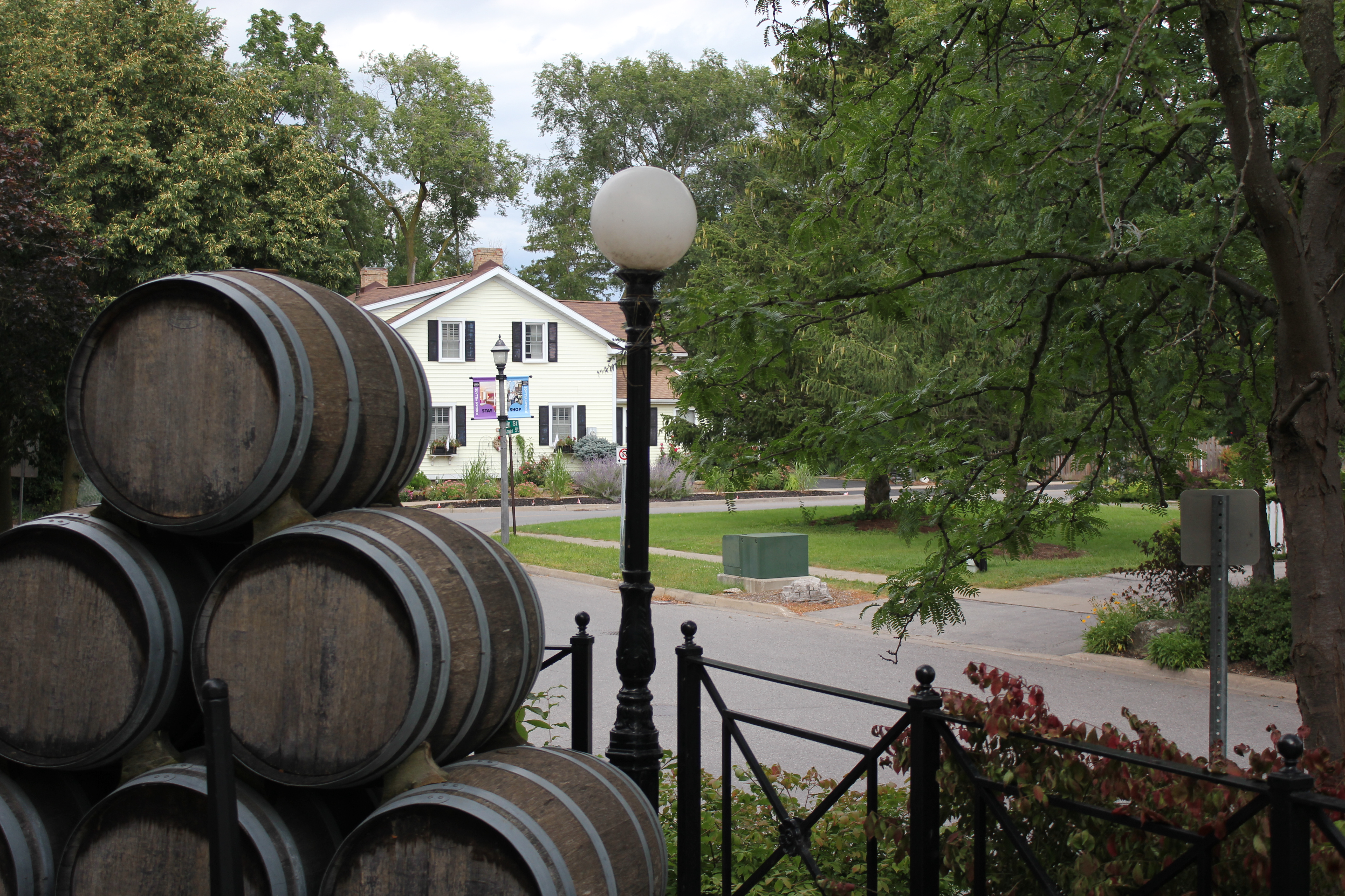 Jordan, Ontario, is a community located on the eastern edge of the Town of Lincoln, in the Niagara Region. Canada